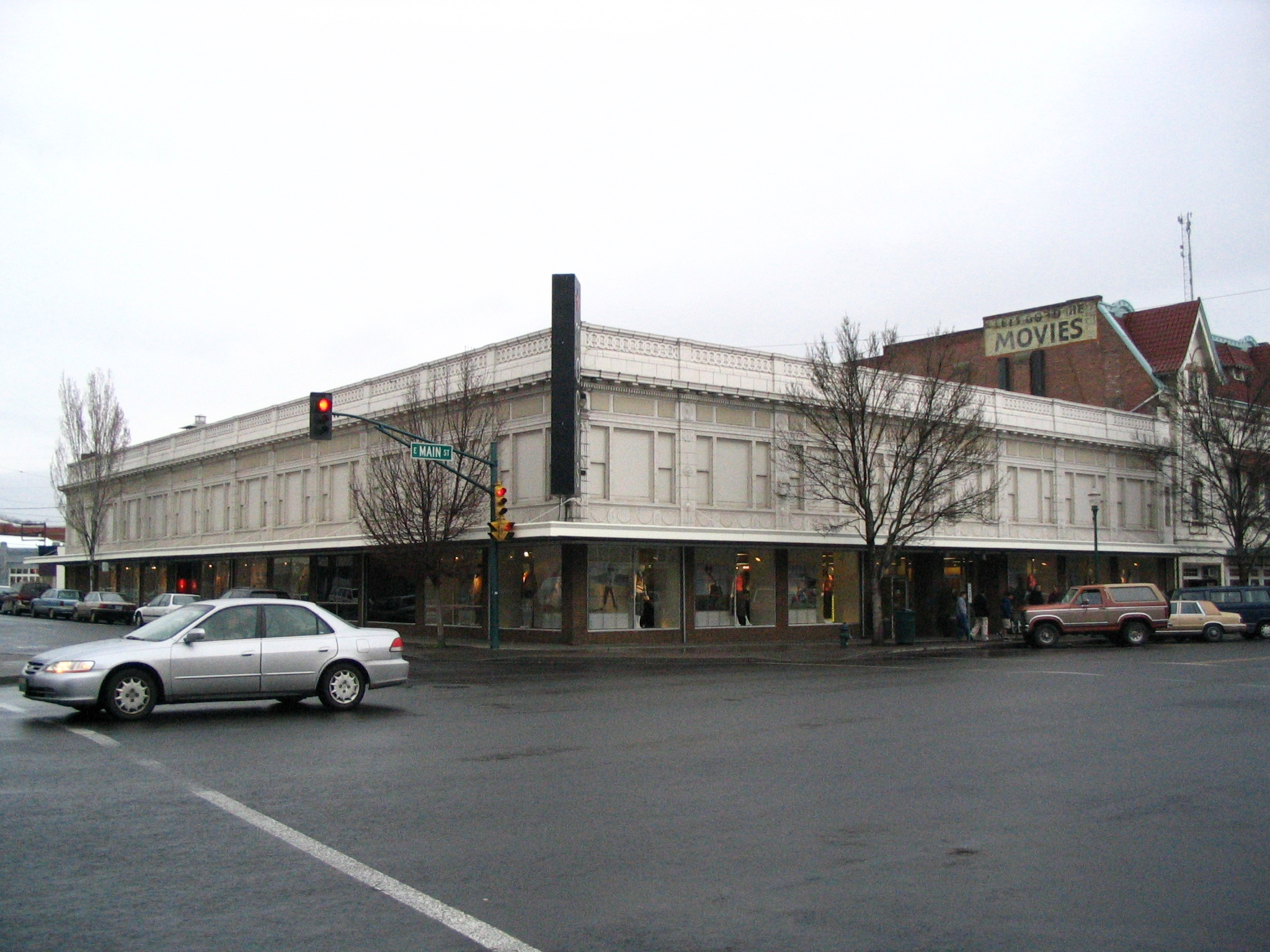 Jensen building today